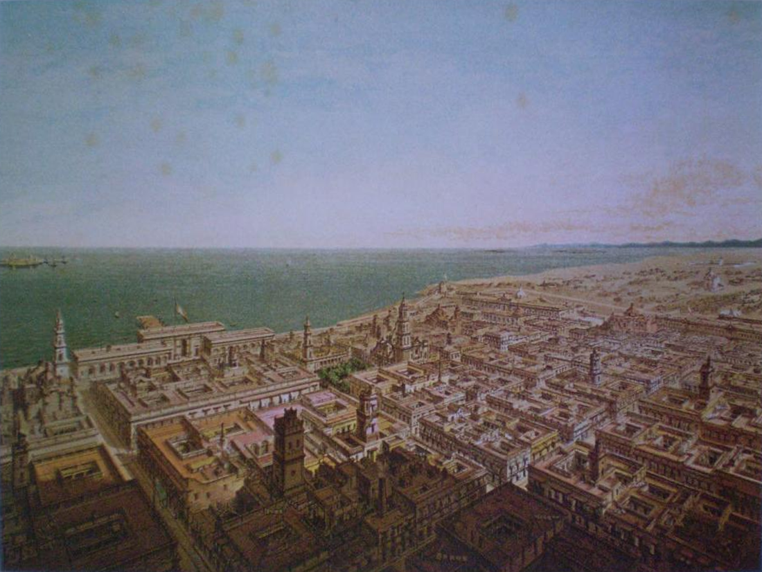 .Picture from the "Album of the Mexican Railway". Pictues by Casimiro Castro. Text by: Antonio Garcia Cubas. Published by Víctor Debray. Year: 1877 Bilanguage edition english and spanish.